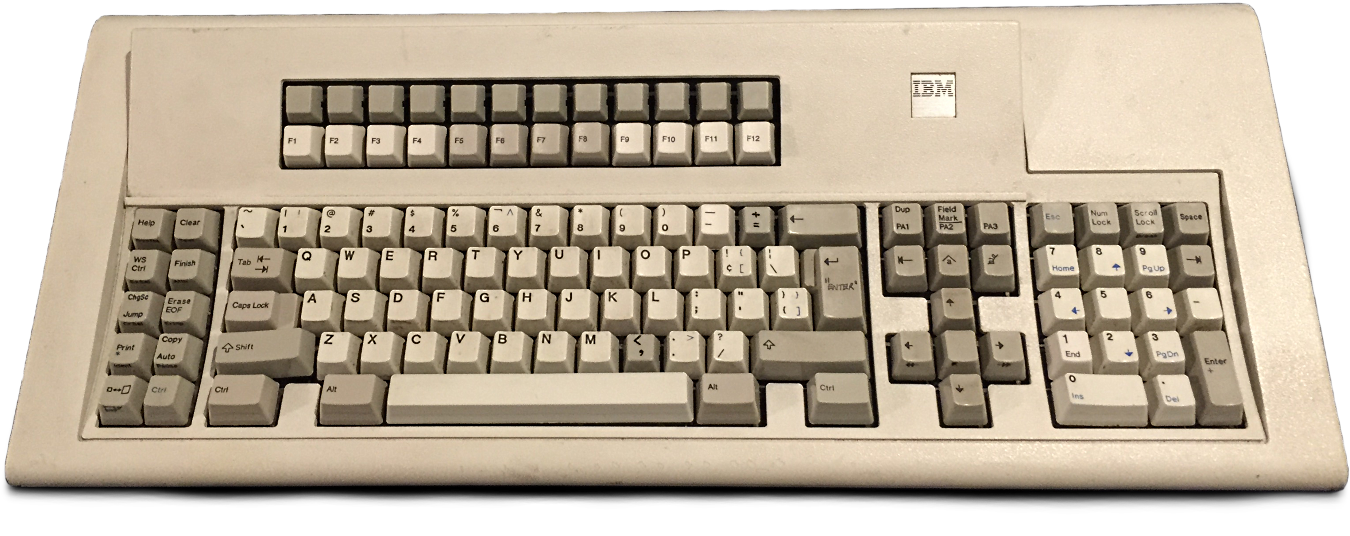 The IBM Model F 122 terminal keyboard